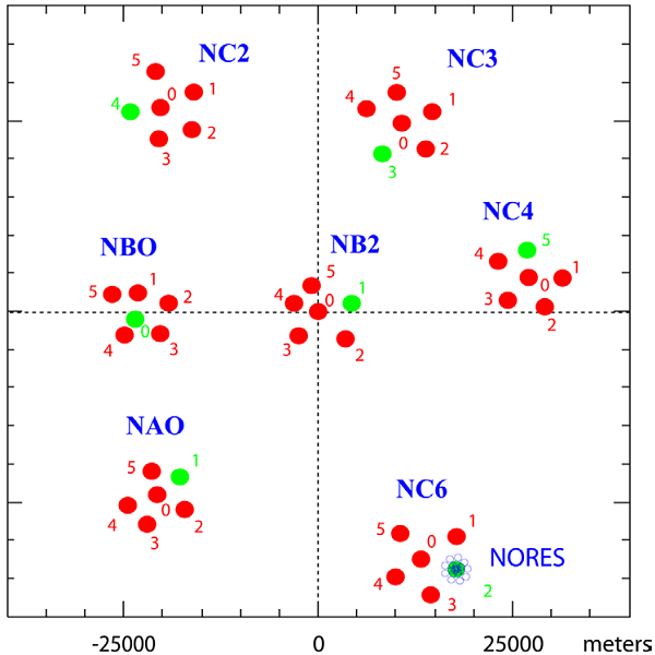 NORSAR seismic array layout